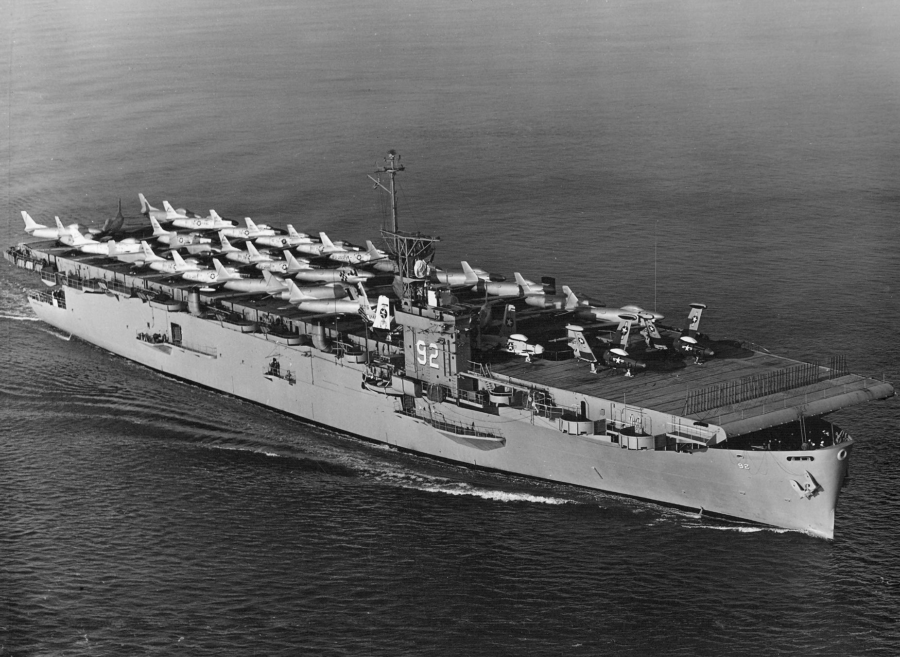 The U.S. Navy escort carrier USS Winham Bay (T-CVU-92) passes under the Golden Gate Bridge, San Francisco, California (USA), with a cargo of aircraft on her flight deck, 1958. Visible are 24 U.S. Air Force North American F-86D/L Sabre interceptors and two liaison aircraft. Four U.S. Navy aircraft are also on deck: two McDonnell F2H-4 Banshee fighters (one is BuNo 127575) and two Grumman F9F-5 Panther fighters (BuNo 125253, 125627). Note that her SK-1 radar has been removed.